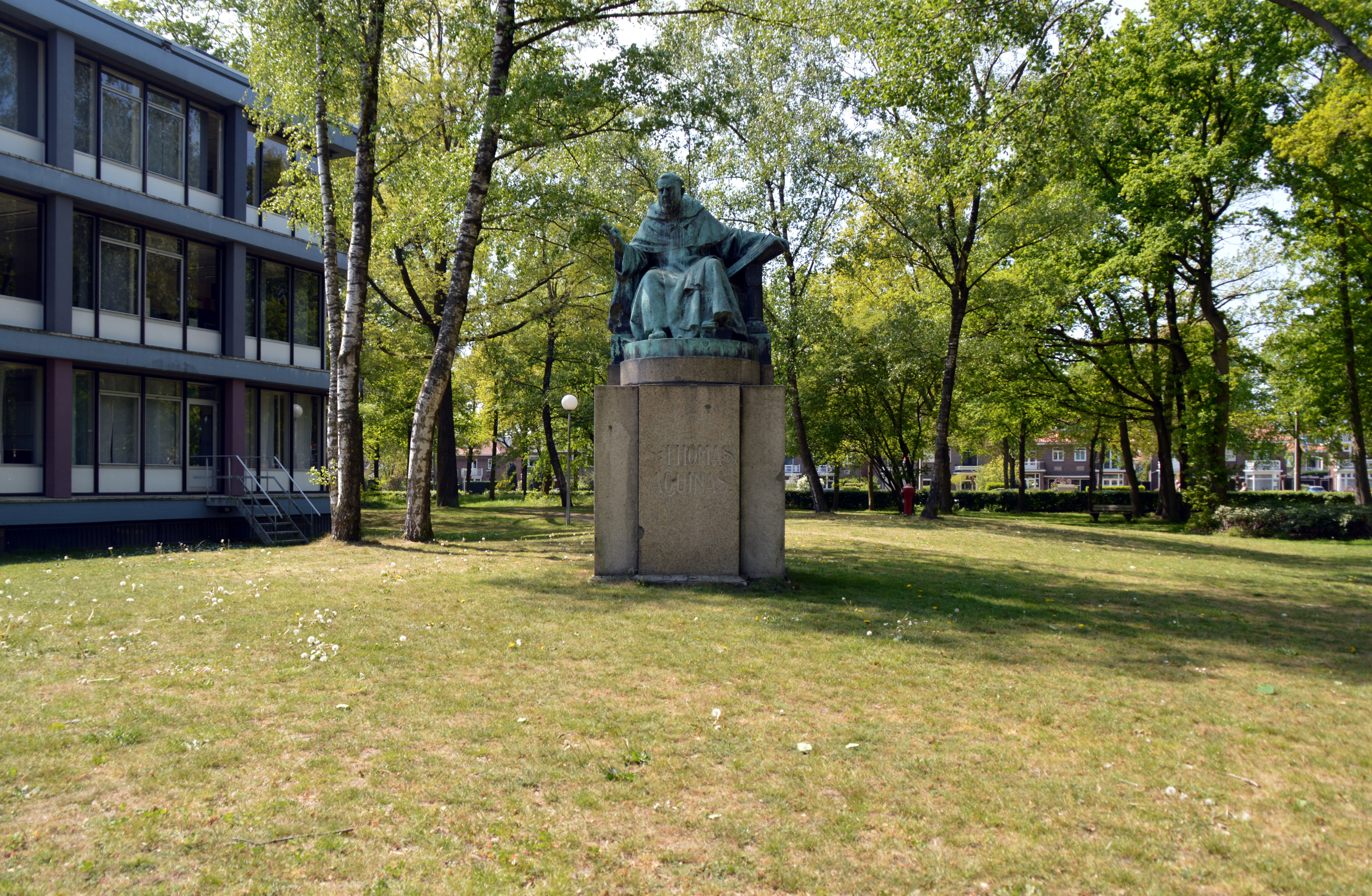 Thomas Aquinas, Comeniuslaan (at the Radboud University auditorium); 1946 Wilhelminasingel, Nijmegen (unveiled June 1, 1926) August Falise